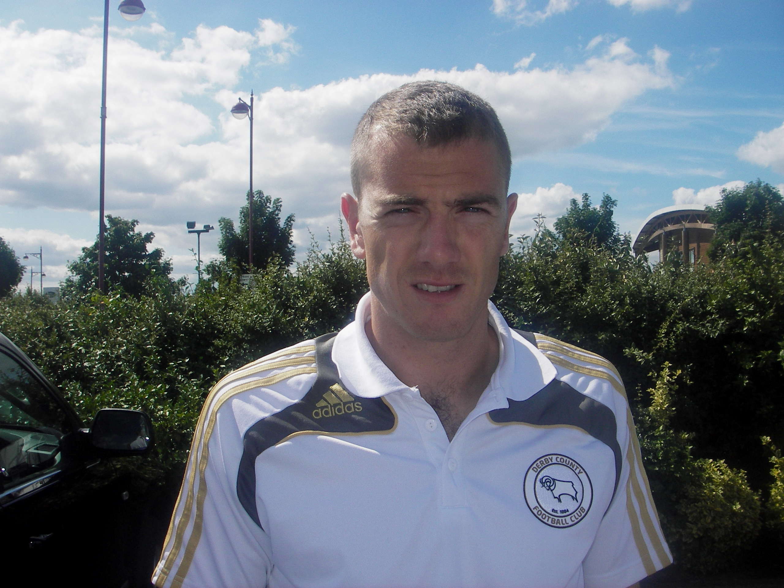 English footballer. Derby County player from July 2008.